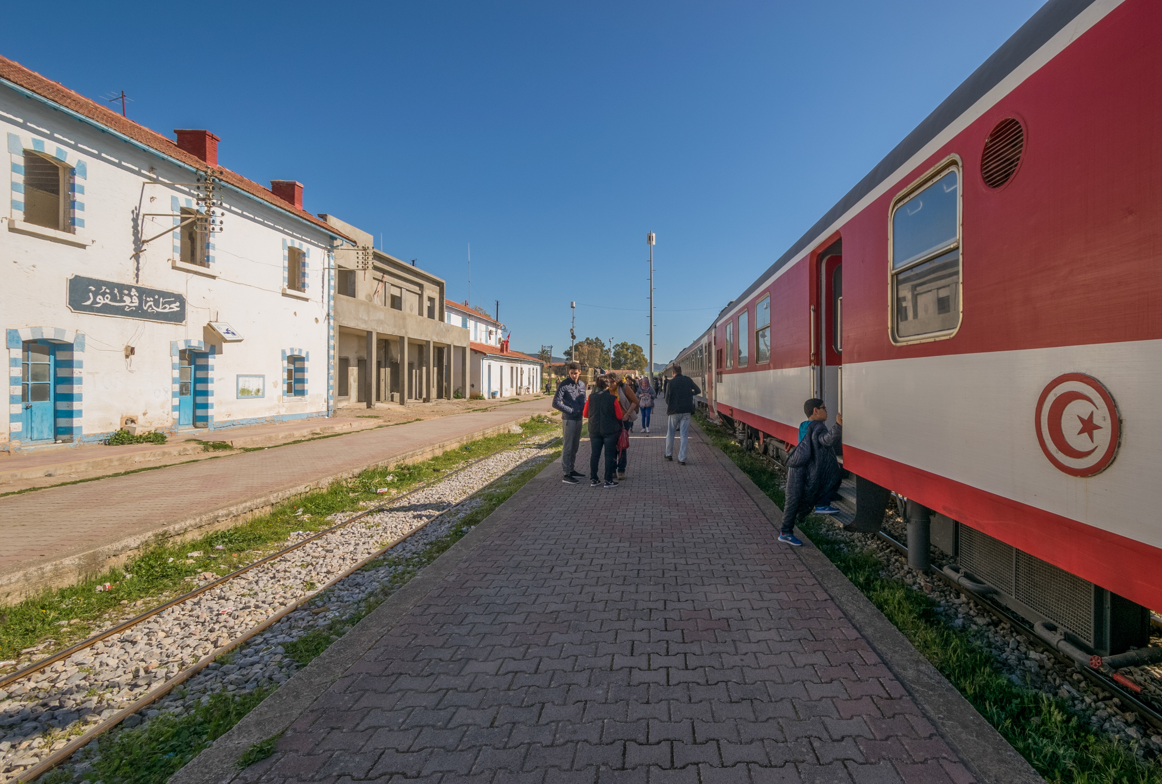 Train of president Habib Bourguiba named "La rose des sable" in Gaafour neraby Siliana in Tunisia.